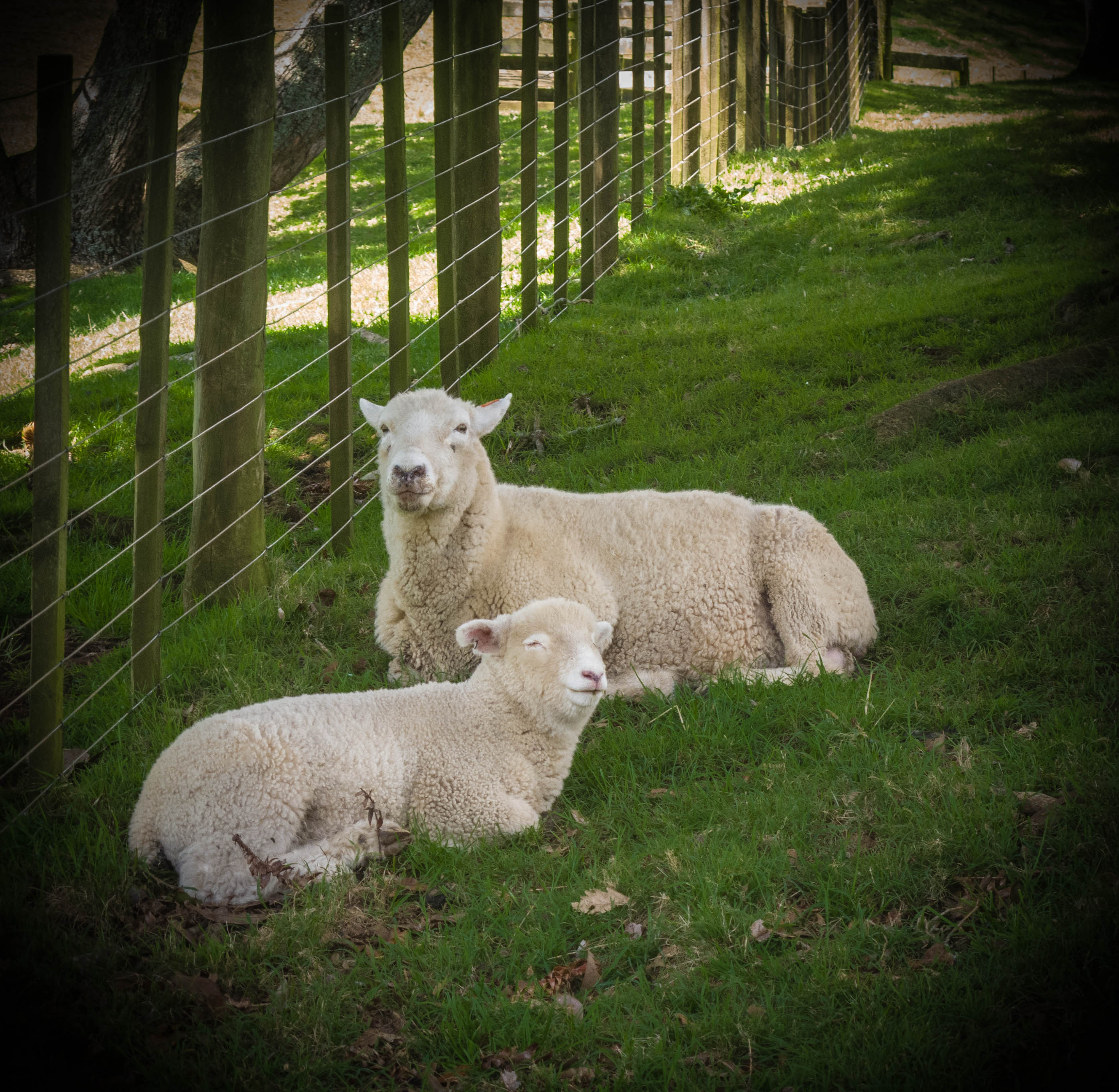 Ewe and her lamb at Cornwall Park/One Tree Hill. Auckland, New Zealand.